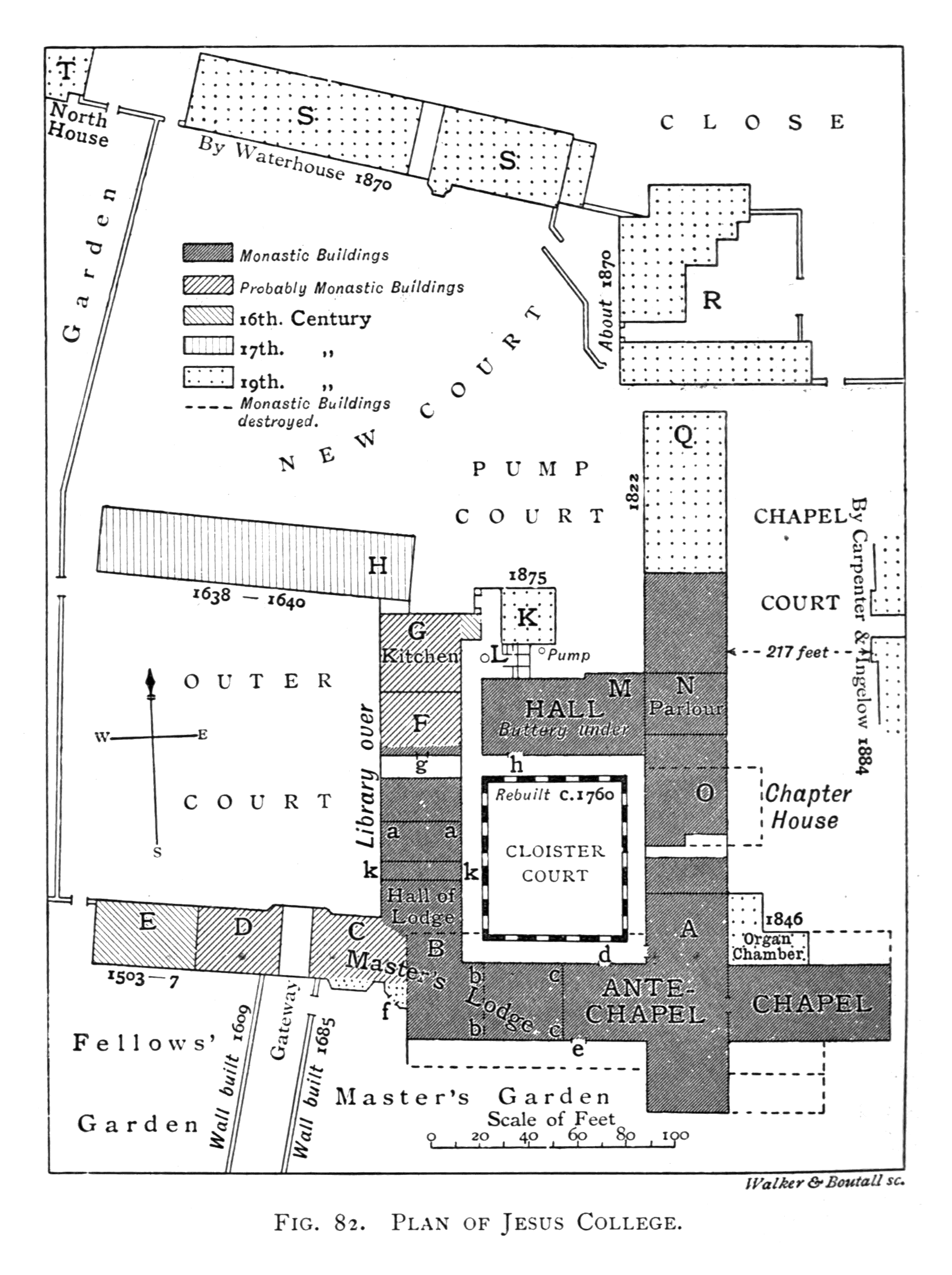 Plan showing the historical architectural development of Jesus College, Cambridge